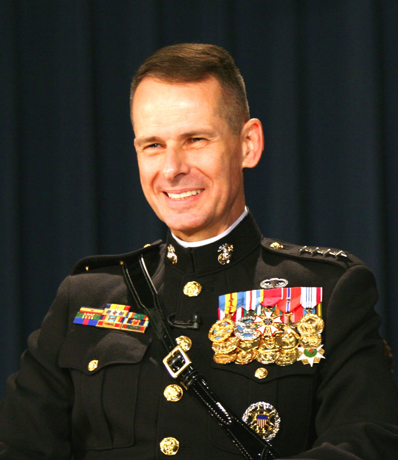 U.S. Marine Corps Gen. Peter Pace, chairman of the Joint Chiefs of Staff on TV talk show on Veterans Day, Nov. 11, 2005